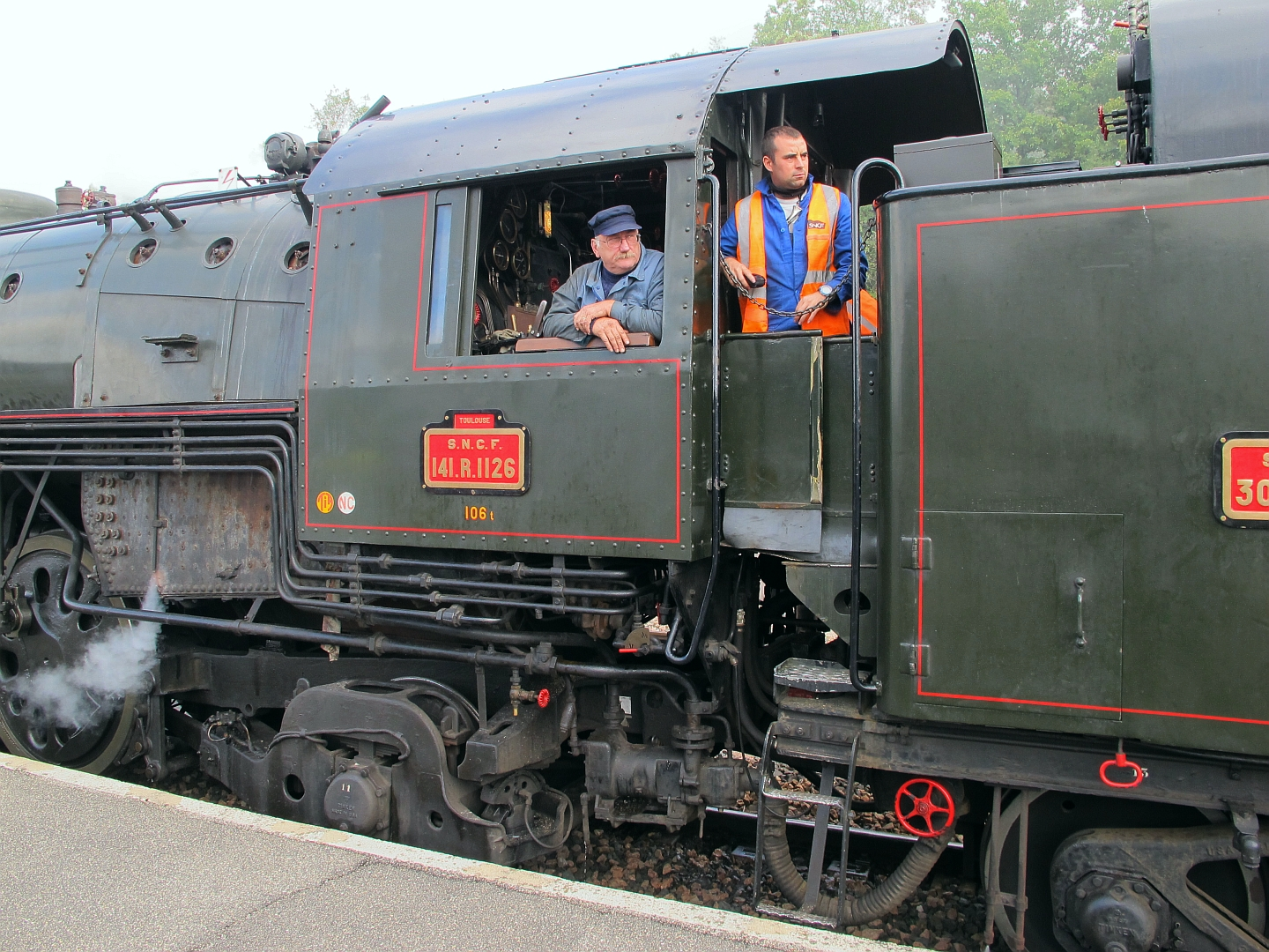 The operating crew of the locomotive 141 R 1126 at Longueville station on September 18, 2011.